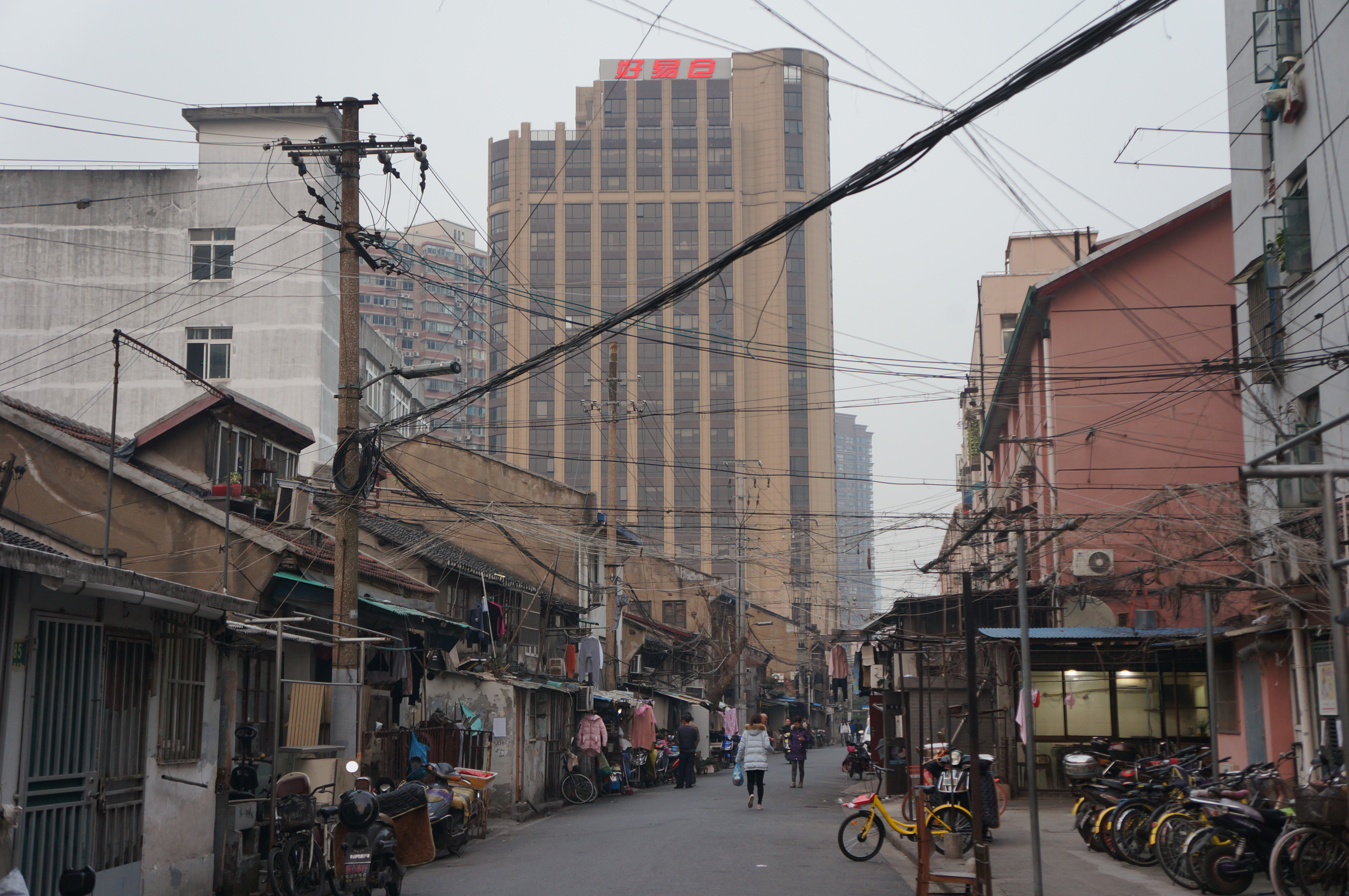 201702 Judongcun near former North Shanghai Station. It reminds me about Shengou Village near Beijingdong Railway Station